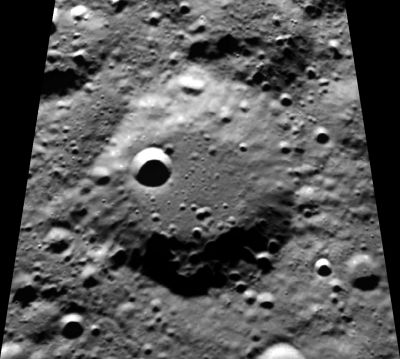 Poinsot lunar crater - Clementine image